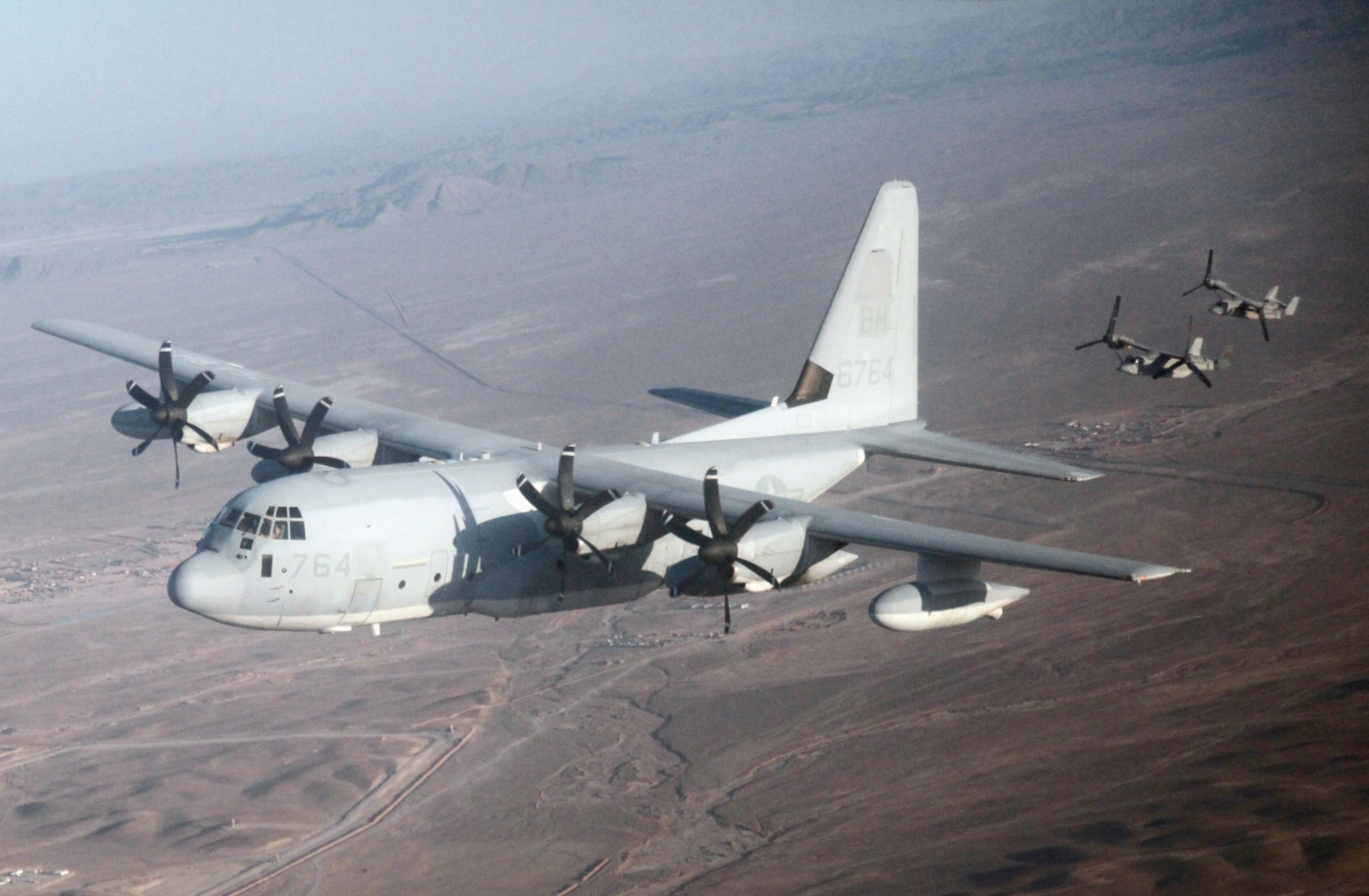 A U.S. Marine Corps Lockheed KC-130J Hercules (BuNo 166764) from Marine Aerial Refueler Transport Squadron VMGR-252 flies over the Middle East with two Marine Medium Tiltrotor Squadron VMM-266 MV-22B Ospreys, on 3 April 2011. Six Ospreys of VMM-266 returned to the 26th Marine Expeditionary Unit after a flight from Camp Bastion, Afghanistan, to Souda Bay, Greece, with the assistance of a pair of KC-130Js from 2nd Marine Aircraft Wing (Forward) which provided transport and aerial refueling support.